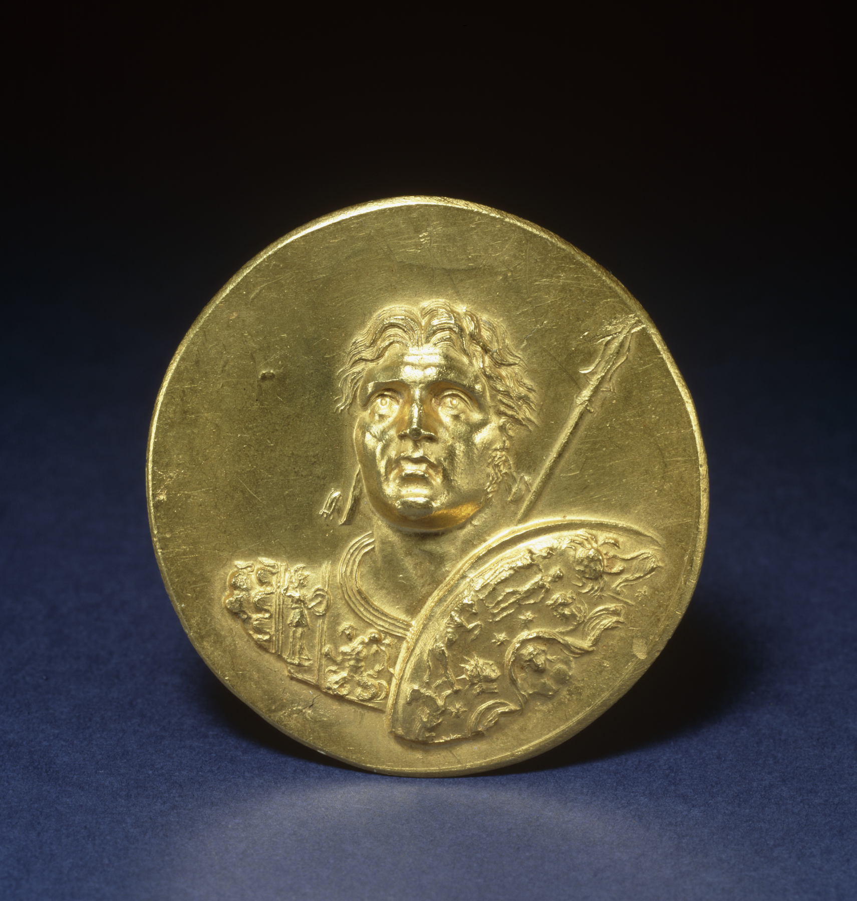 Together with Walters 59.2 and 59.3, this piece was discovered in Egypt as part of a hoard that comprised about twenty similar medallions (now dispersed among various museums), eighteen gold ingots, and six hundred gold coins issued by Roman emperors from Severus Alexander (r. AD 222-235) to Constantius I (r. AD 293-306). One of the medallions, now in the Calouste Gulbenkian Museum in Lisbon, bears an inscription that possibly reads "Olympic games of the year 274", a date corresponding to AD 242-243. It is possible that the medallions were intended as prizes to be given out at that event. Alternatively, they may have been issued by Emperor Caracalla (r. AD 198-217), who is potrayed on some of them. Caracalla liked to be compared to the great king and conquerror Alexander of Macedon (ruled 336-323 BC). Like Alexander, this Roman emperor waged war in the East, and actually died in the course of his campaign against the Parthians. This particular medallion shows Alexander the Great gazing heavenward and bearing a shield decorated with signs of the zodiac. This portrait shows him with his hair pulled back. He wears a decorated cuirass with a figure of Athena on the shoulder strap and, on the chest, a scene from the Gigantomachy (War of the Giants). The back depicts Alexander and Nike, goddess of victory, riding in a chariot, flanked by the deities Roma and Mars.